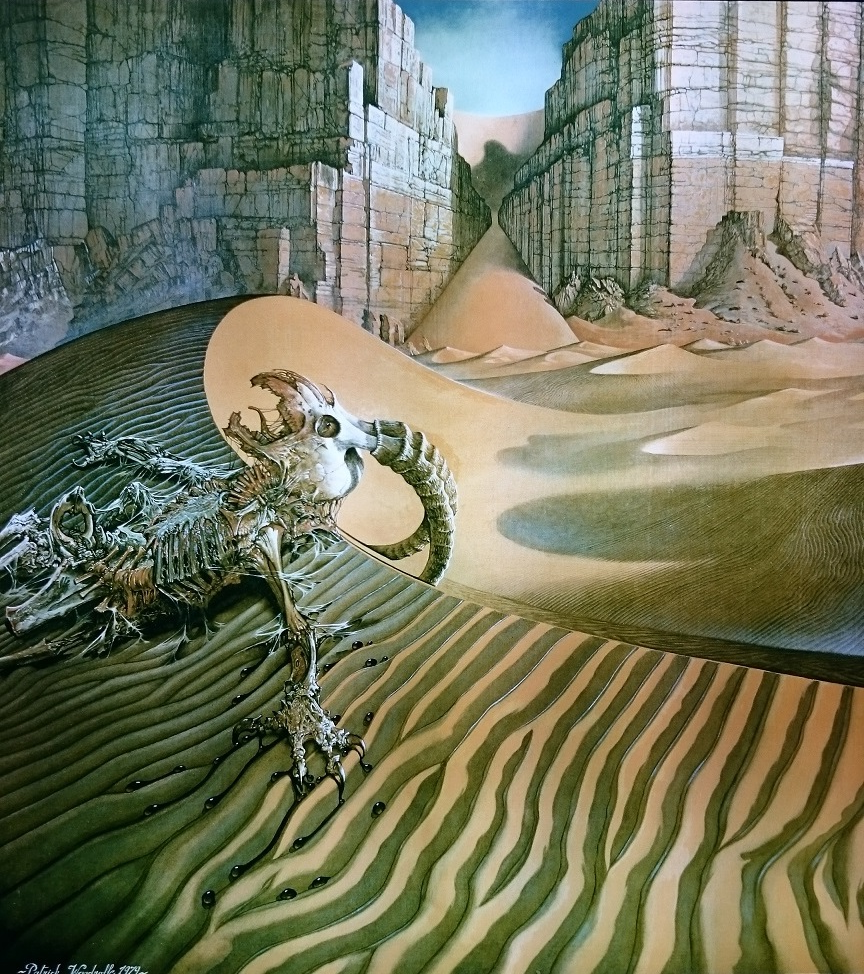 Woolroffe 1979